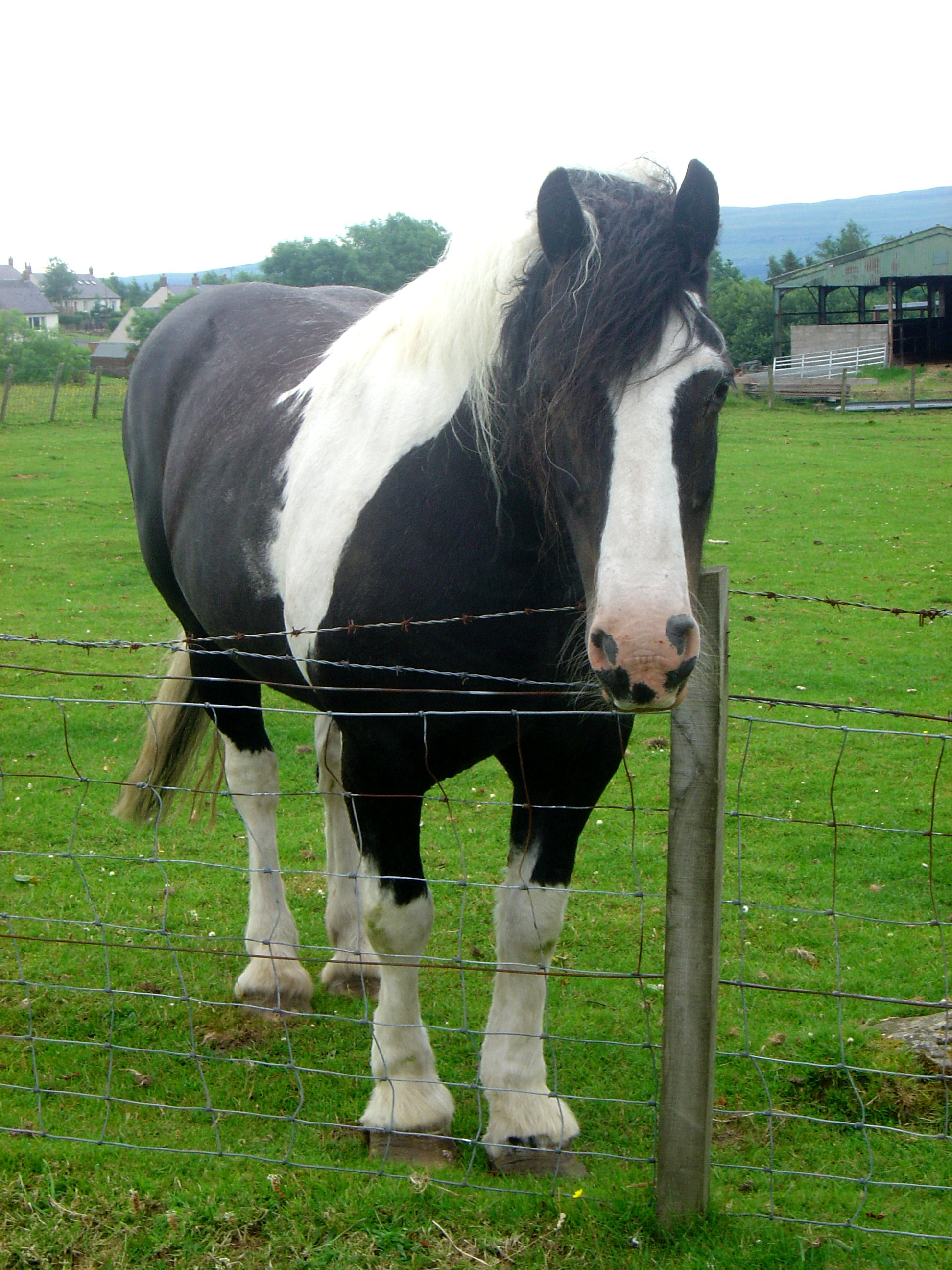 A "Tinker pony" / "Gypsy Vanner" /"Black&White" /Coloured Cob in Scotland. All names have the same meaning, but are different in different areas /regions